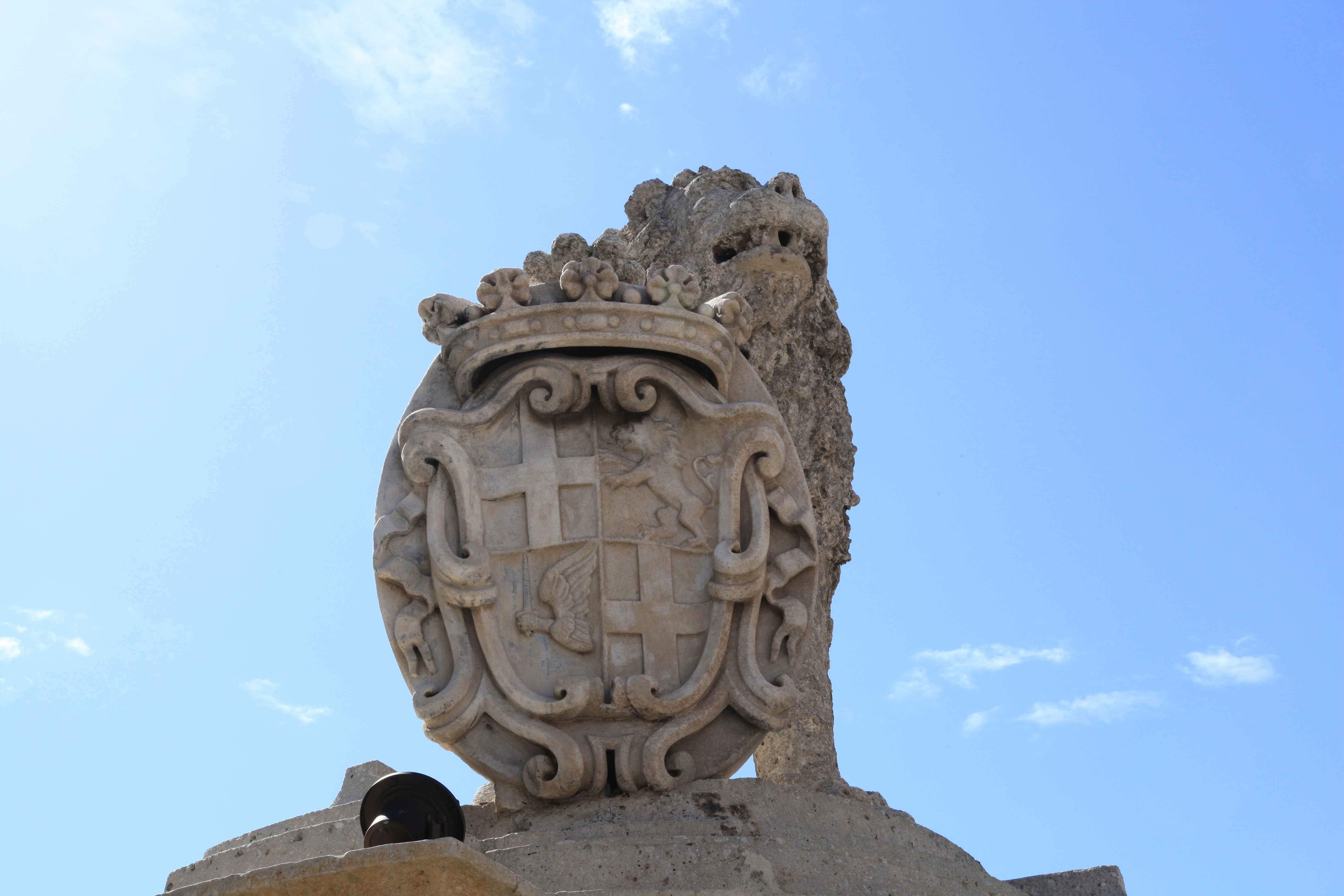 Lion Fountain at Triq Sant' Anna in Floriana, Malta